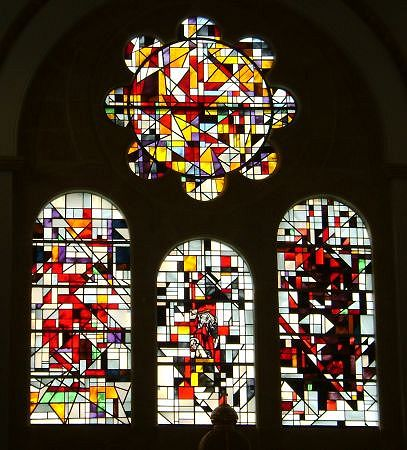 Four stained glasses church , "Saint-Fuscien" Church France. Paintor : Alain Mongrenier.